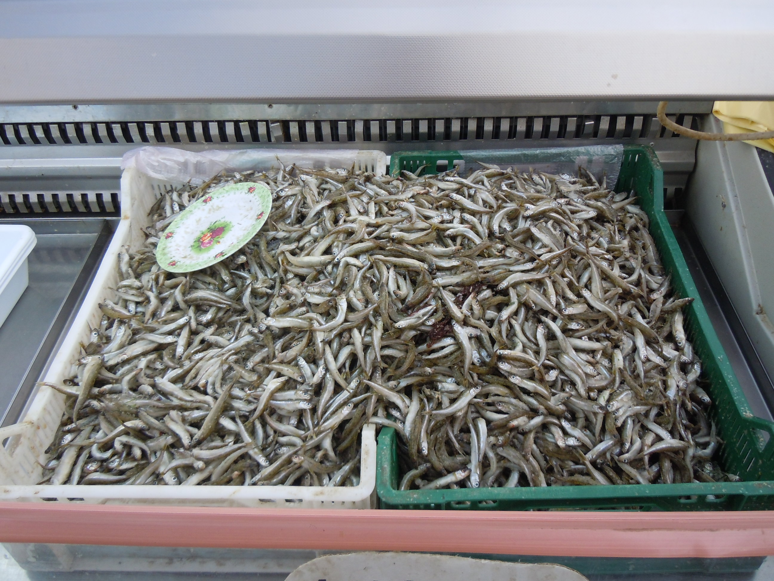 Sand-smelts for sale on the market, Odessa, Ukraine